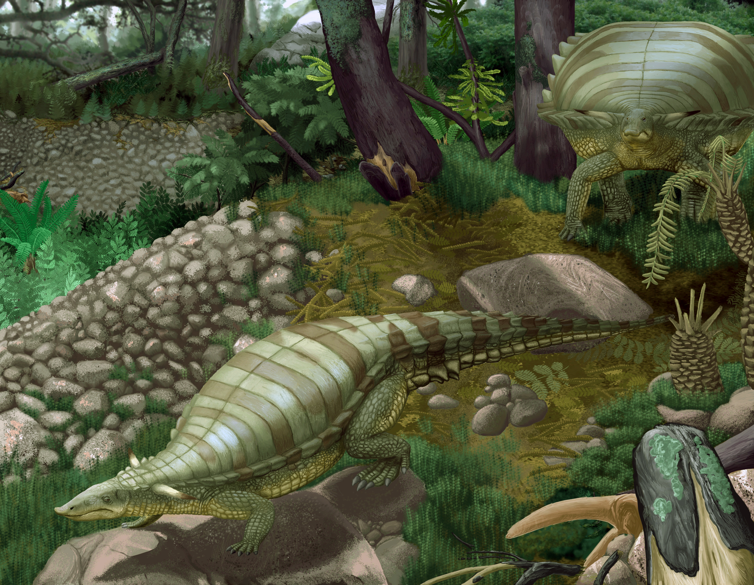 Life restoration of Typothorax coccinarum based on the figures in "Articulated skeletons of the aetosaur Typothorax coccinarum Cope (Archosauria: Stagonolepididae) from the Upper Triassic Bull Canyon Formation (Revueltian: early-mid Norian), eastern New Mexico, USA" by Andrew B. Heckert, Spencer G. Lucas, Larry F. Rinehart, Matthew D. Celeskey, Justin A. Spielmann, and Adrian P. Hunt (Journal of Vertebrate Paleontology 30(3): 619-642.